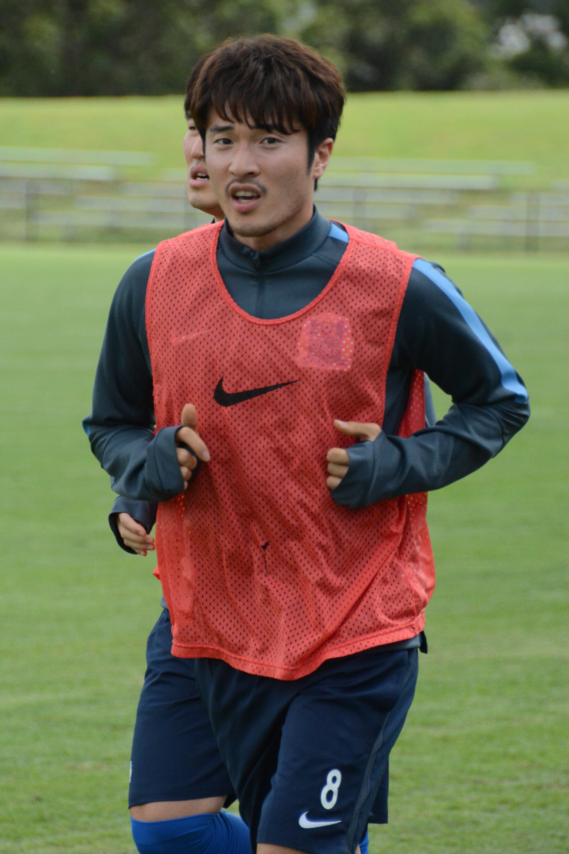 South Korean international Park Jong-Woo. Photos from the Guangzhou R&F Training Session ahead of their Asian Champions League Qualifying match against Central Coast Mariners. For more info, check out